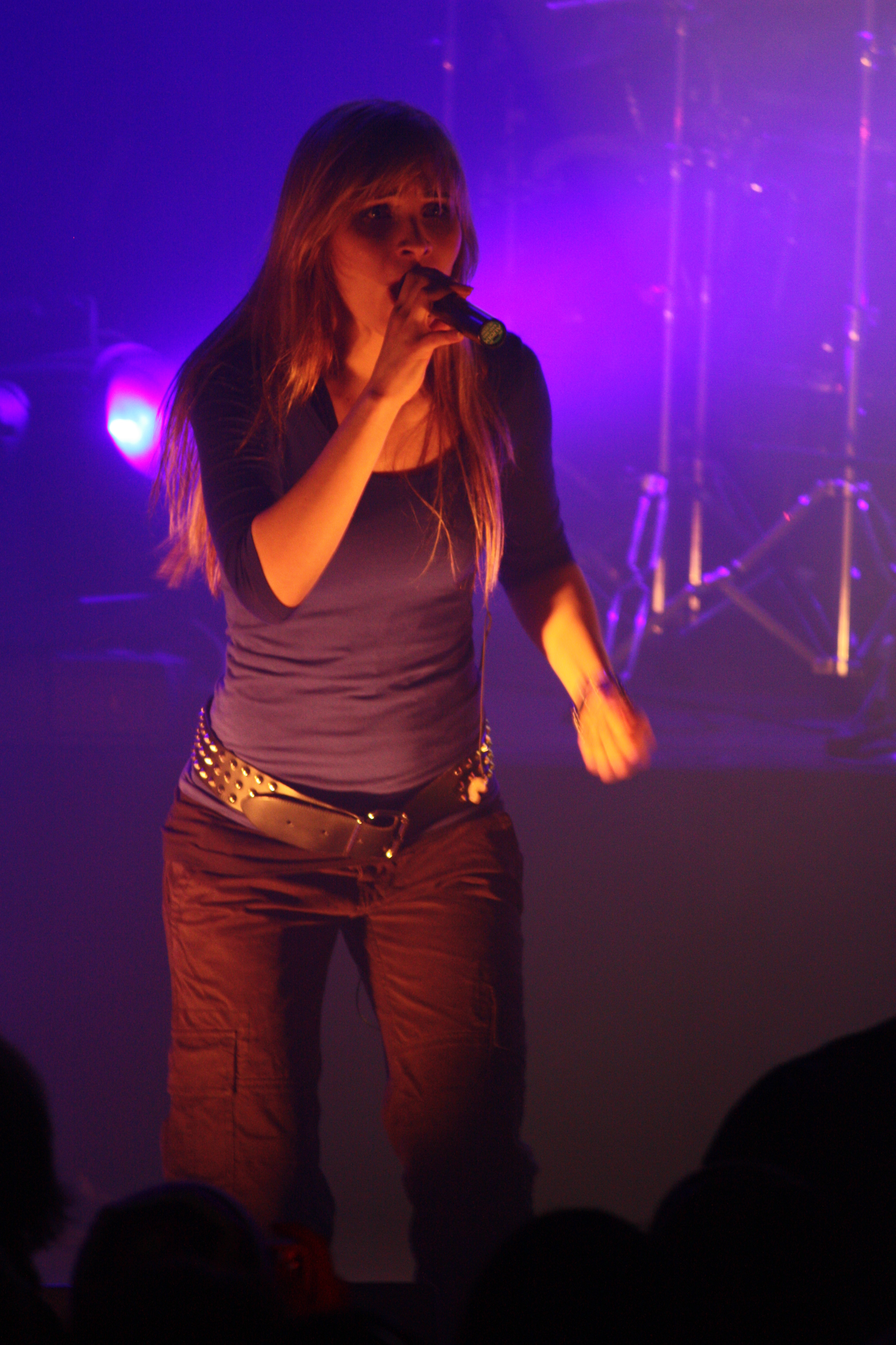 Singer Johanna Aaltonen in Uusi Alku -happening 2010